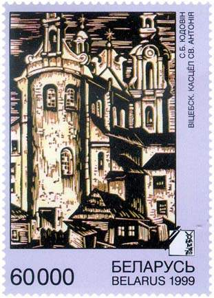 Stamp of Belarus